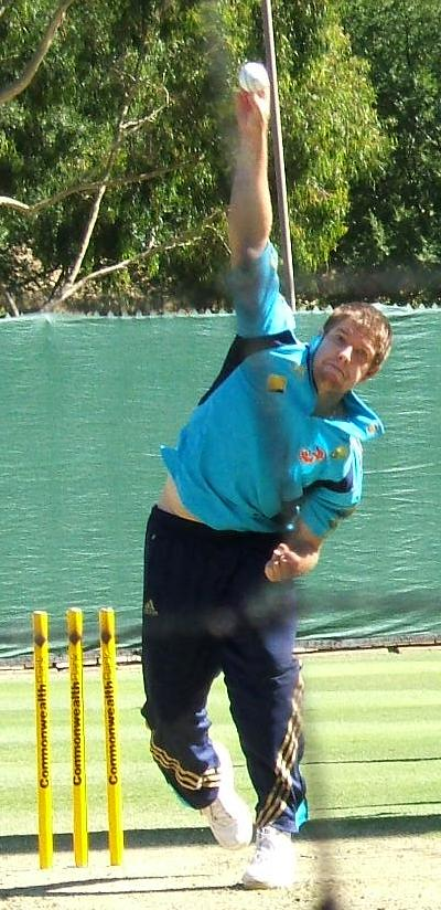 James Hopes at a training session at the Adelaide Oval